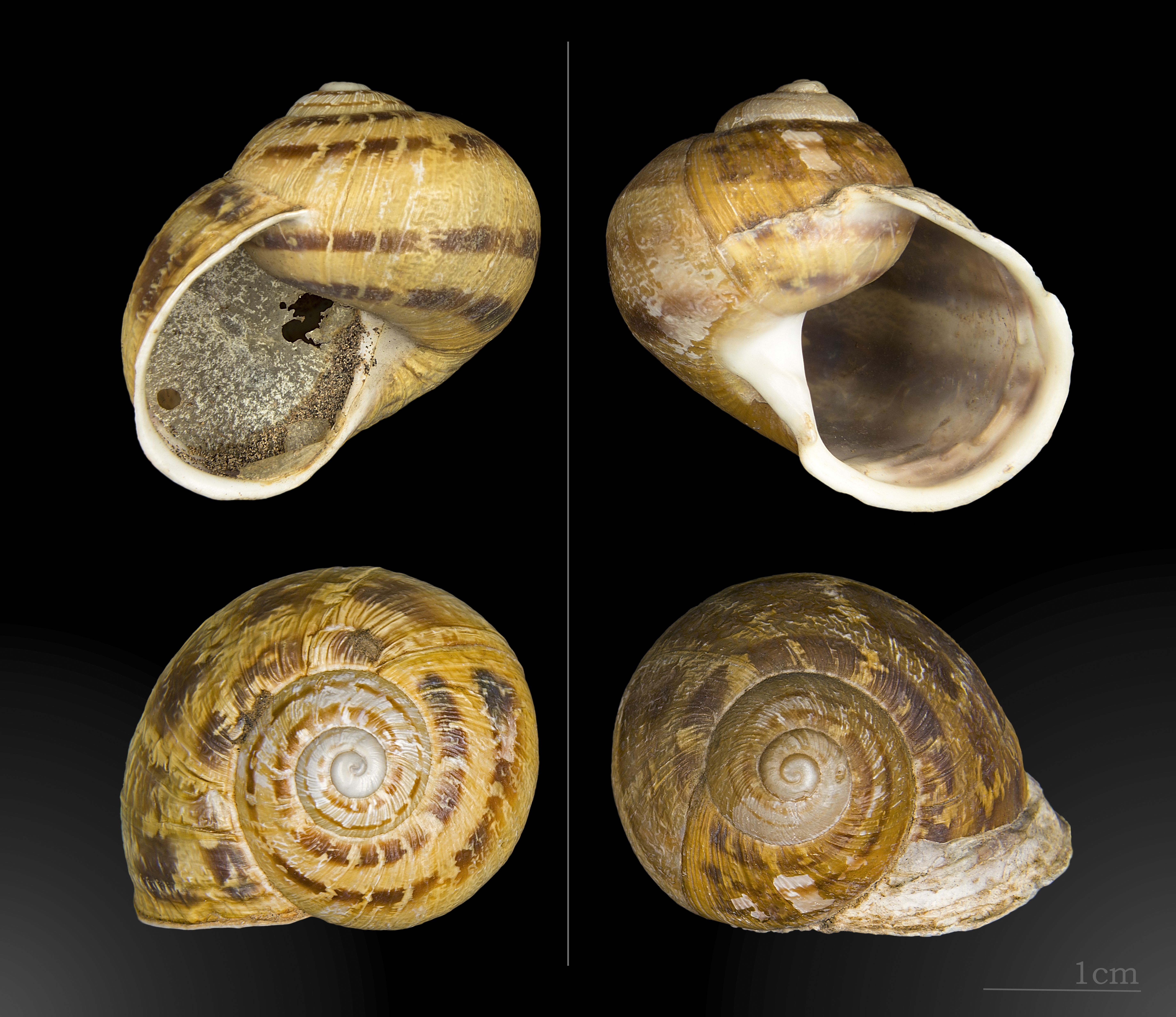 Garden snail - Senestre form (exceptional) and dextral form (common) or 1/20 000.